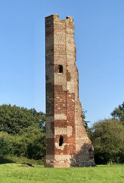 WSGC Tower